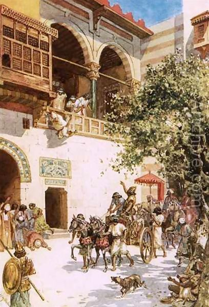 The death of Jezebe